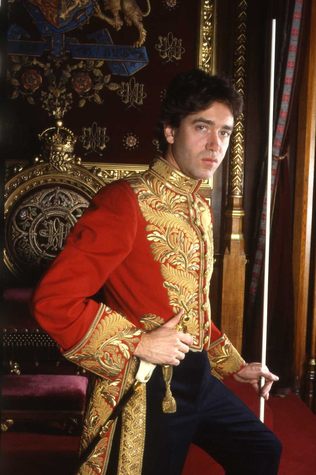 portrait of the 7th Marquis of Cholmondeley in the throne room House of Lords London